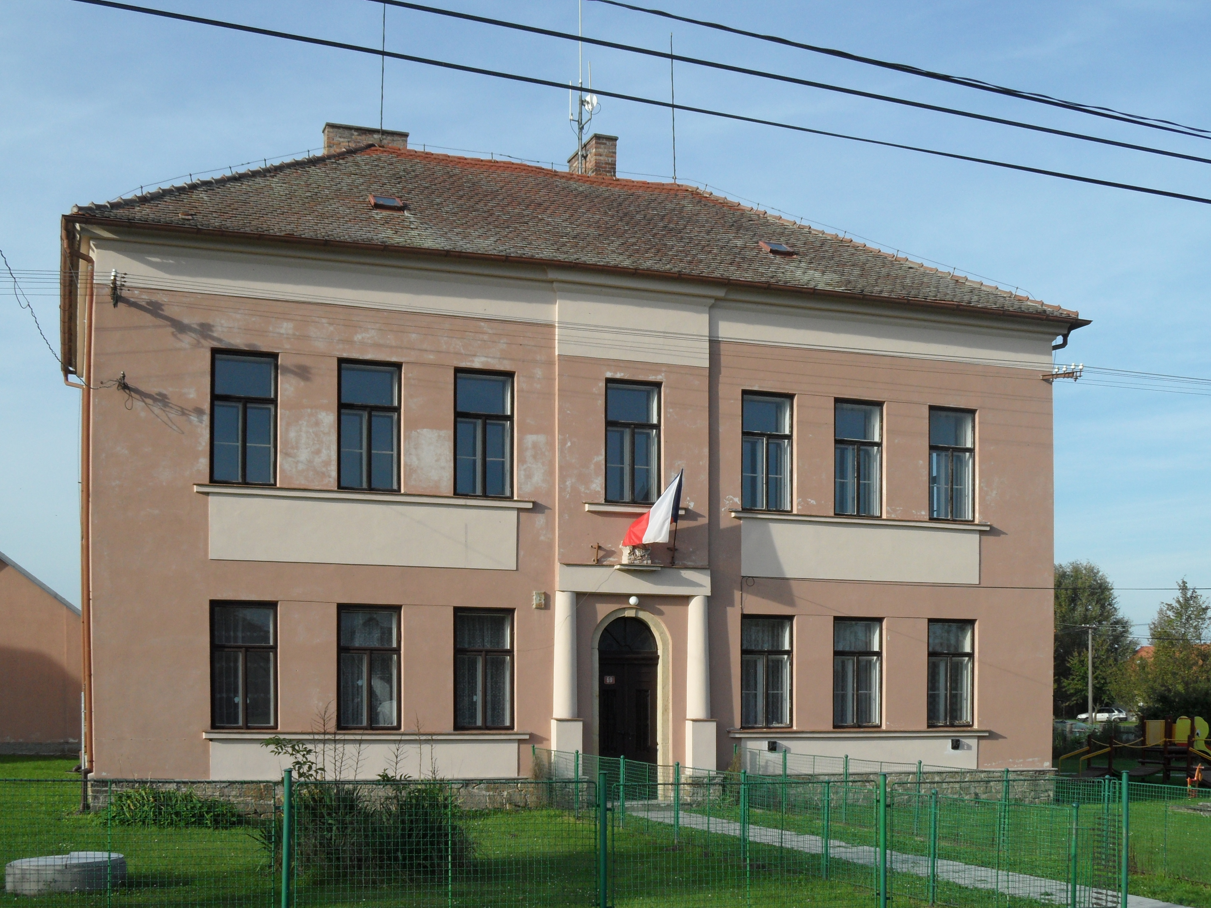 Uhlířská Lhota A. Building of Municipality Office, Kolín District, the Czech Republic.